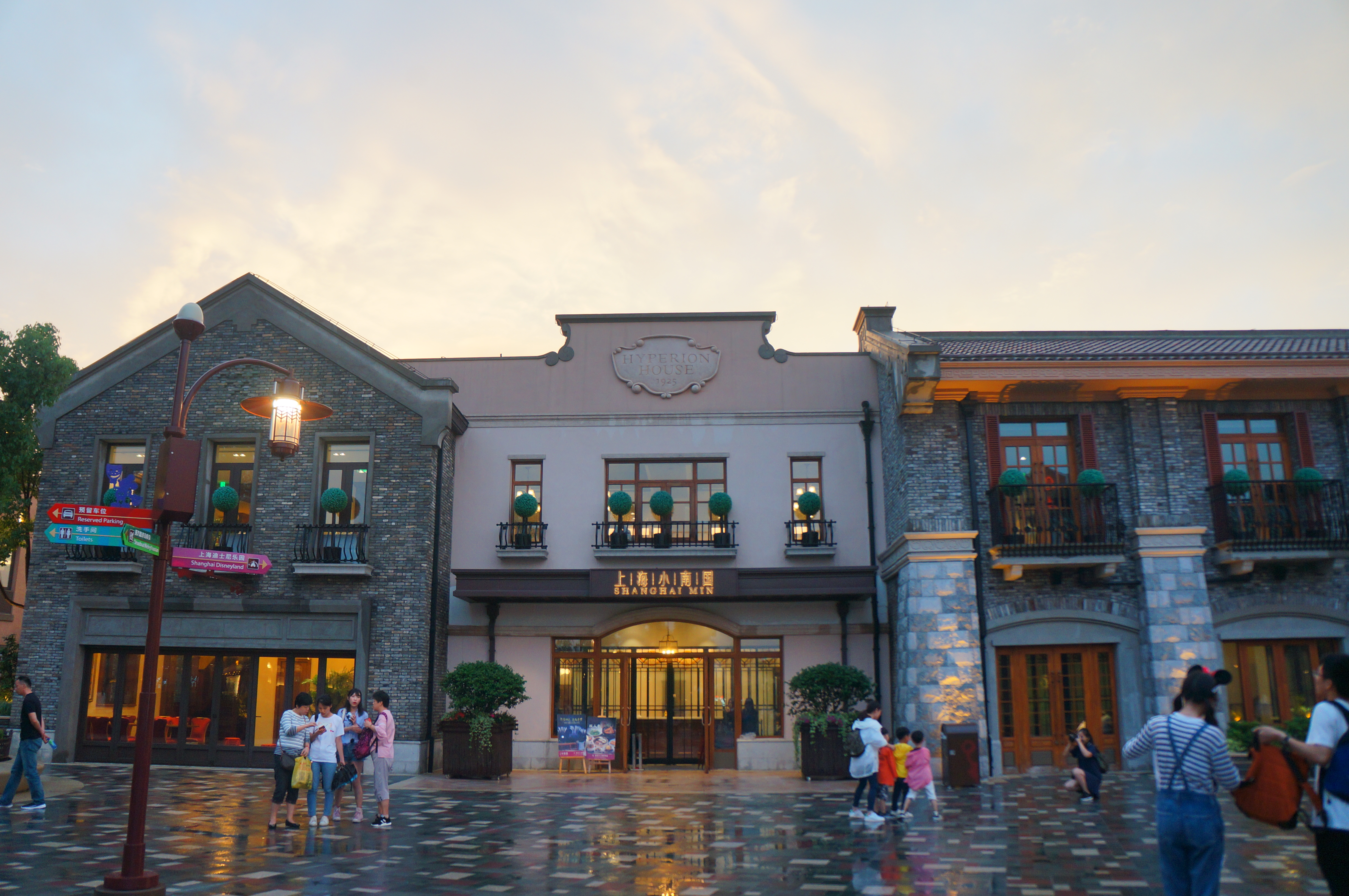 201706 Shanghai Min Restaurant at Disneytown